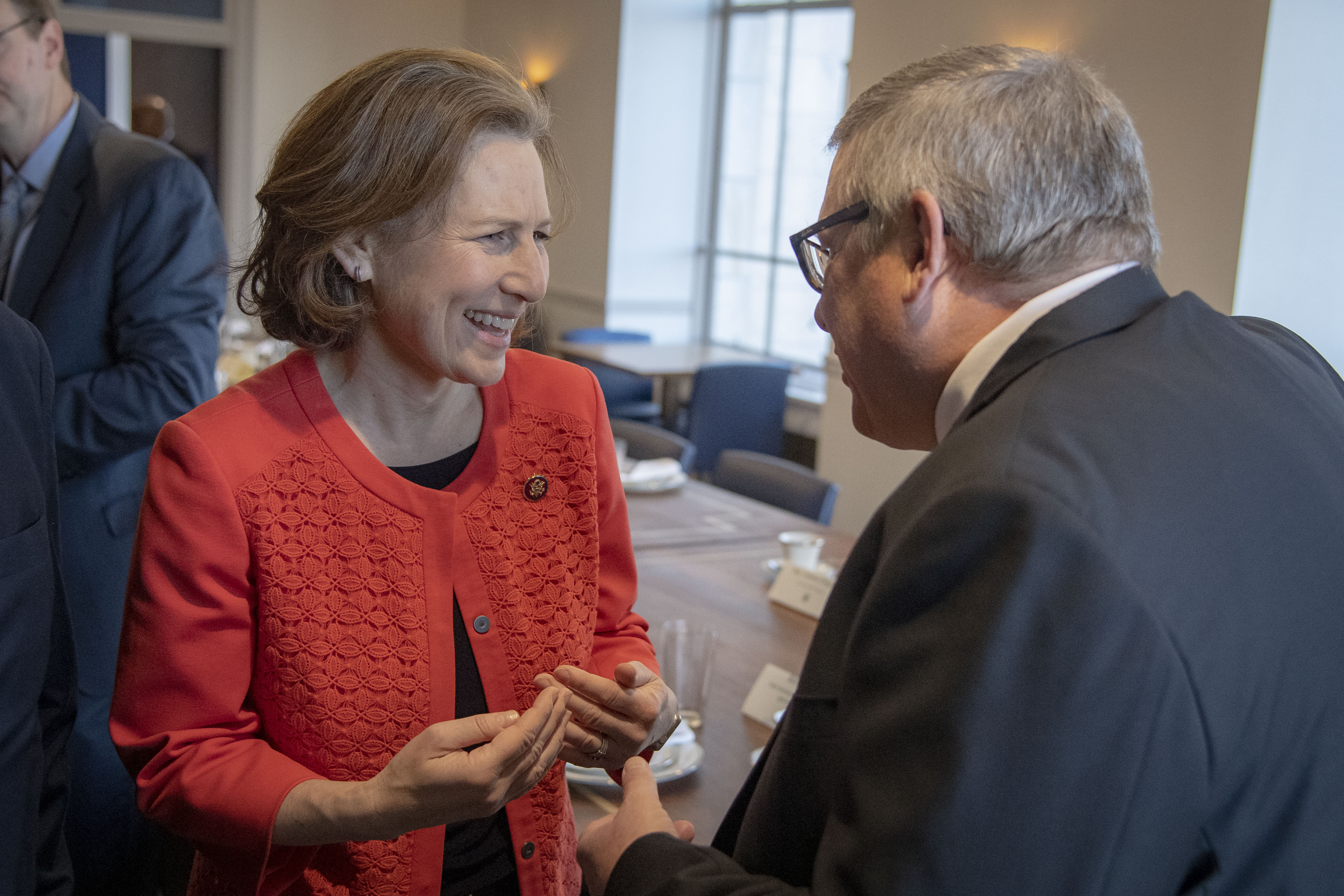 House Agriculture Committee Member Kim Schrier (D-WA-08) talks with U.S. Department of Agriculture (USDA) Under Secretary for Farm Production & Conservation (FPAC) Bill Northey before Secretary Sonny Perdue hosts breakfast at the USDA Headquarters. Members in attendance are Reps. Jahana Hayes (D-CT-05), Antonio Delgado (D-NY-19), Dusty Johnson (R-SD-At Large), Jim Hagedorn (R-MN-01), TJ Cox (D-CA-21), Josh Harder (D-CA-10), Kim Schrier (D-WA-08), Cindy Axne (D-IA-03), Abigail Spanberger (D-VA-07), Jim Baird (R-IN-04), Michael Conaway (R-TX-11) and Collin Peterson (D-MN-07). USDA photo by Preston Keres